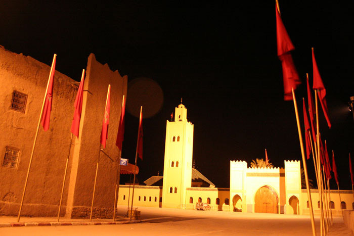 Description: Moulay Ali Cherif Mausoleum in Rissani south east Morocco Capture date: 2009-01 Photographer: João Leitão